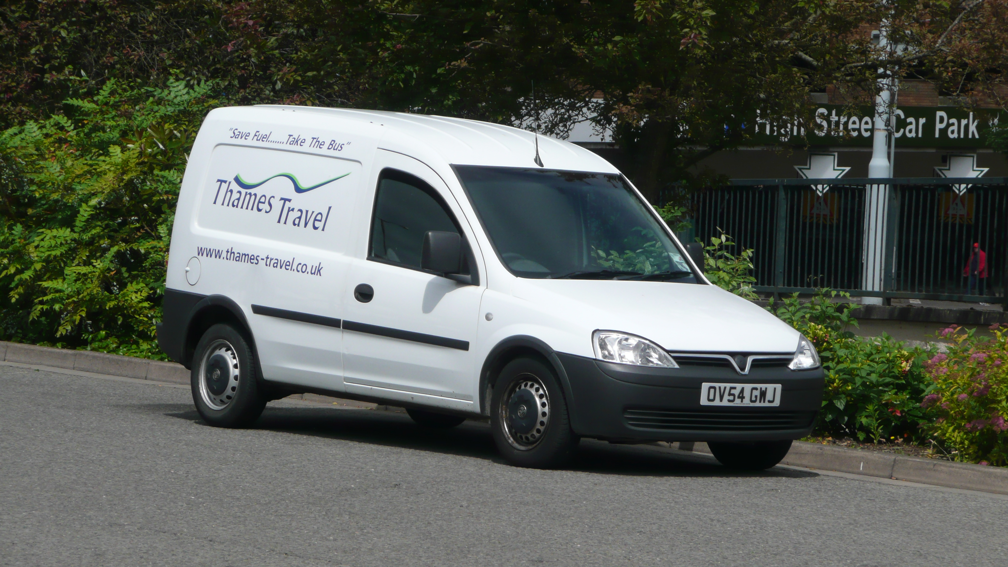 Thames Travel OV54 GWJ, a Vauxhall Combo van, in Bracknell bus station, Bracknell, Berkshire. It is used as a fleet support vehicle and staff van.